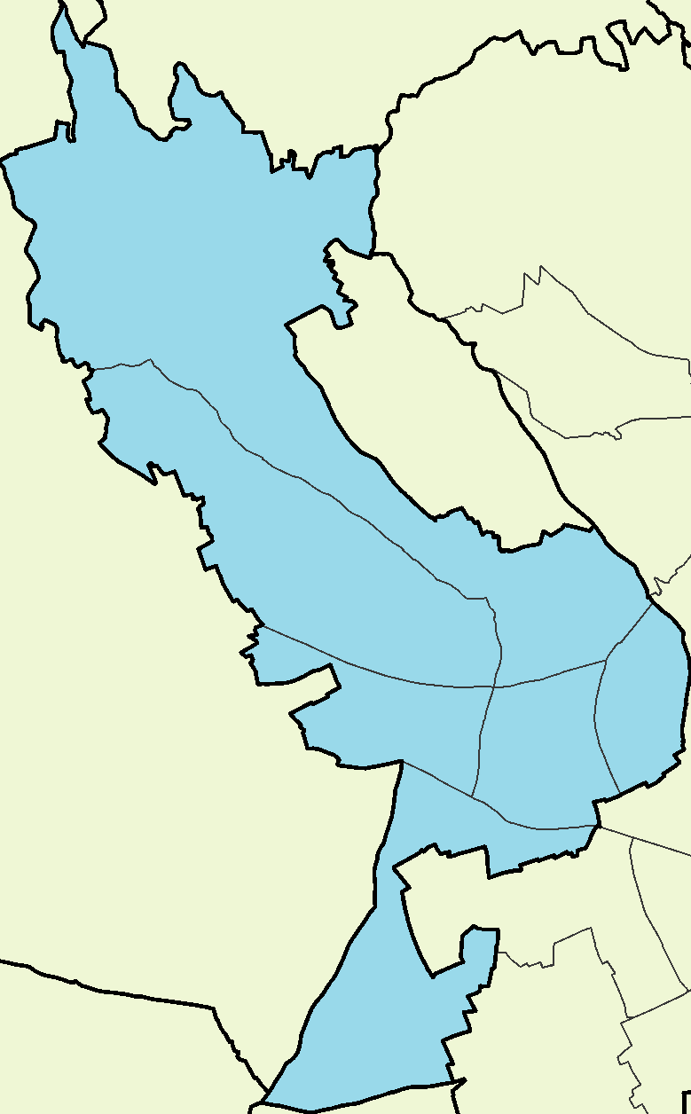 Kato Polemidia Municipality with quarters.